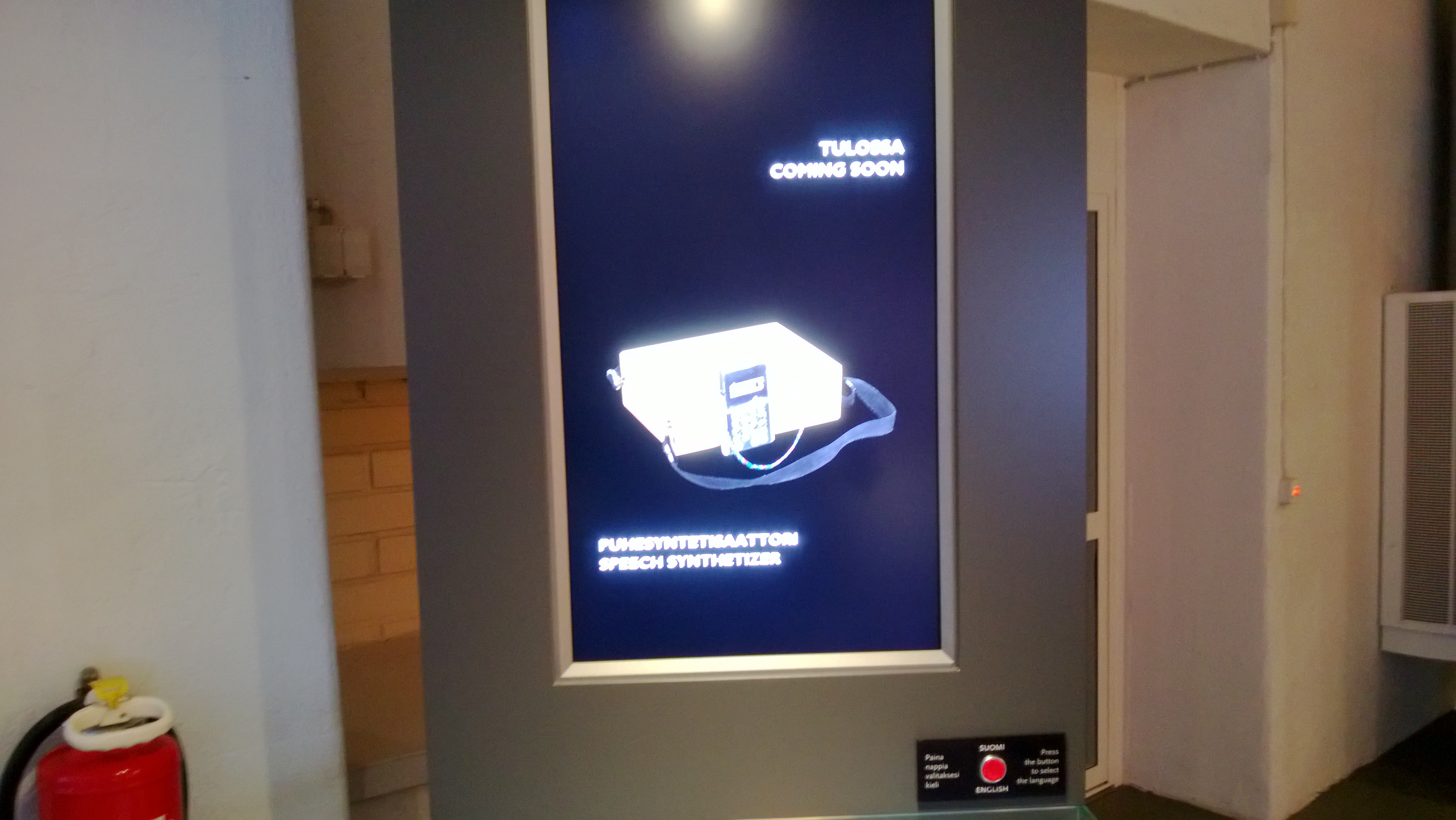 Synte 2 speech synthesizer at the Invention Exhibition at the Museum Center Vapriikki in Tampere, Finland, picture 1 (6.20.2012–)